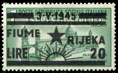 Yugoslav occupation of Fiume, overprinted on stamp of the Italian Social Republic